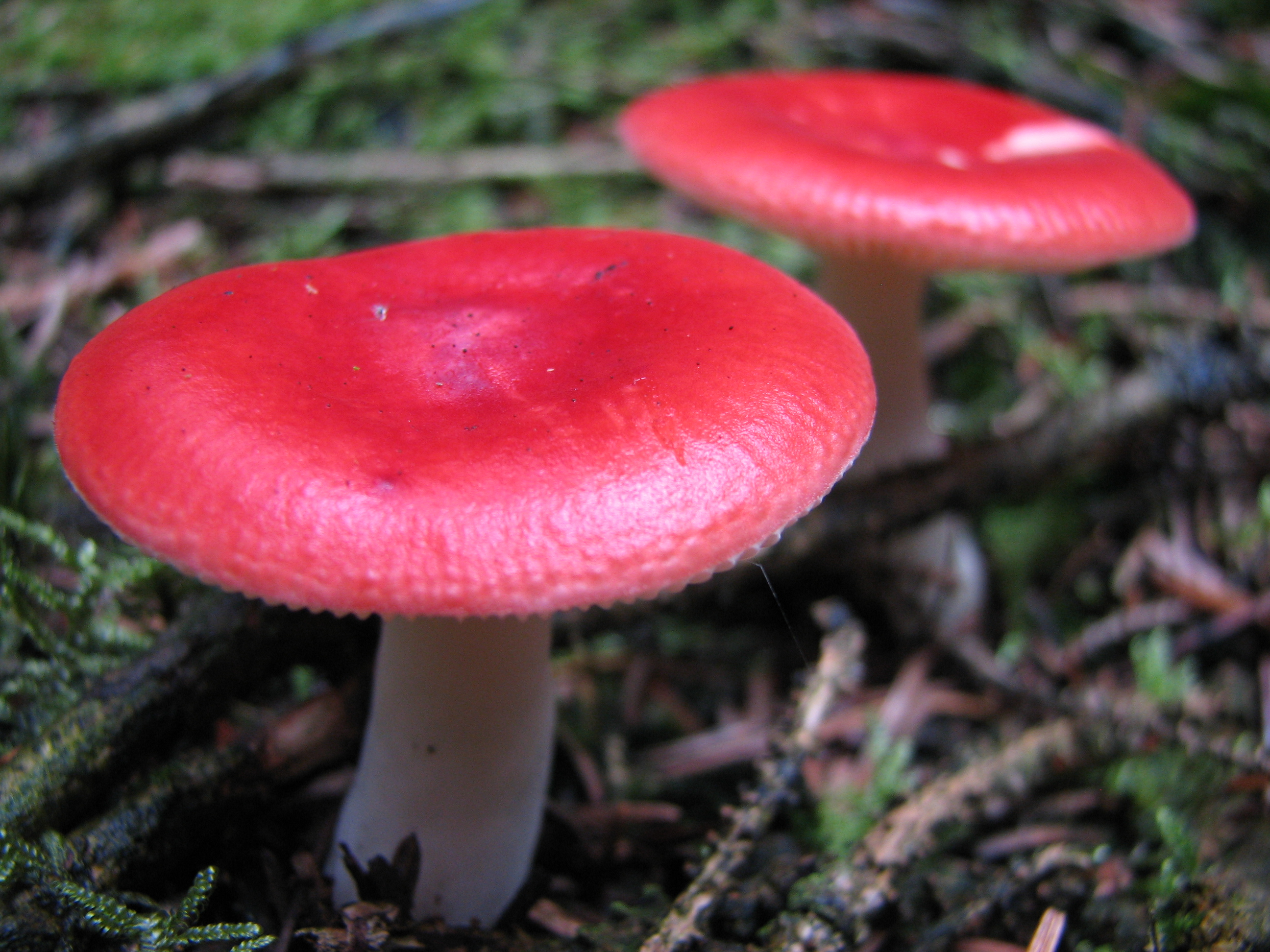 Russula emetica